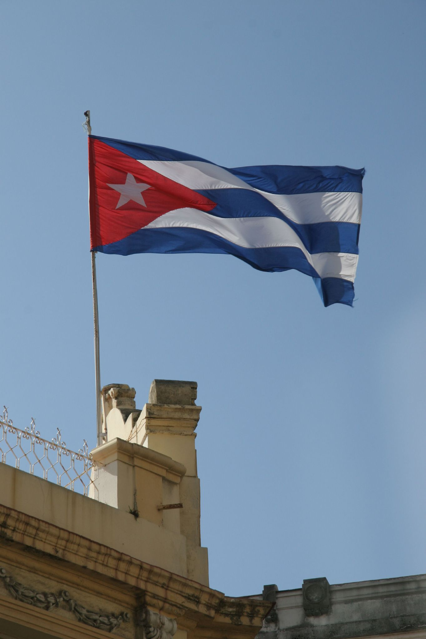 Seen across the road from our hotel room window